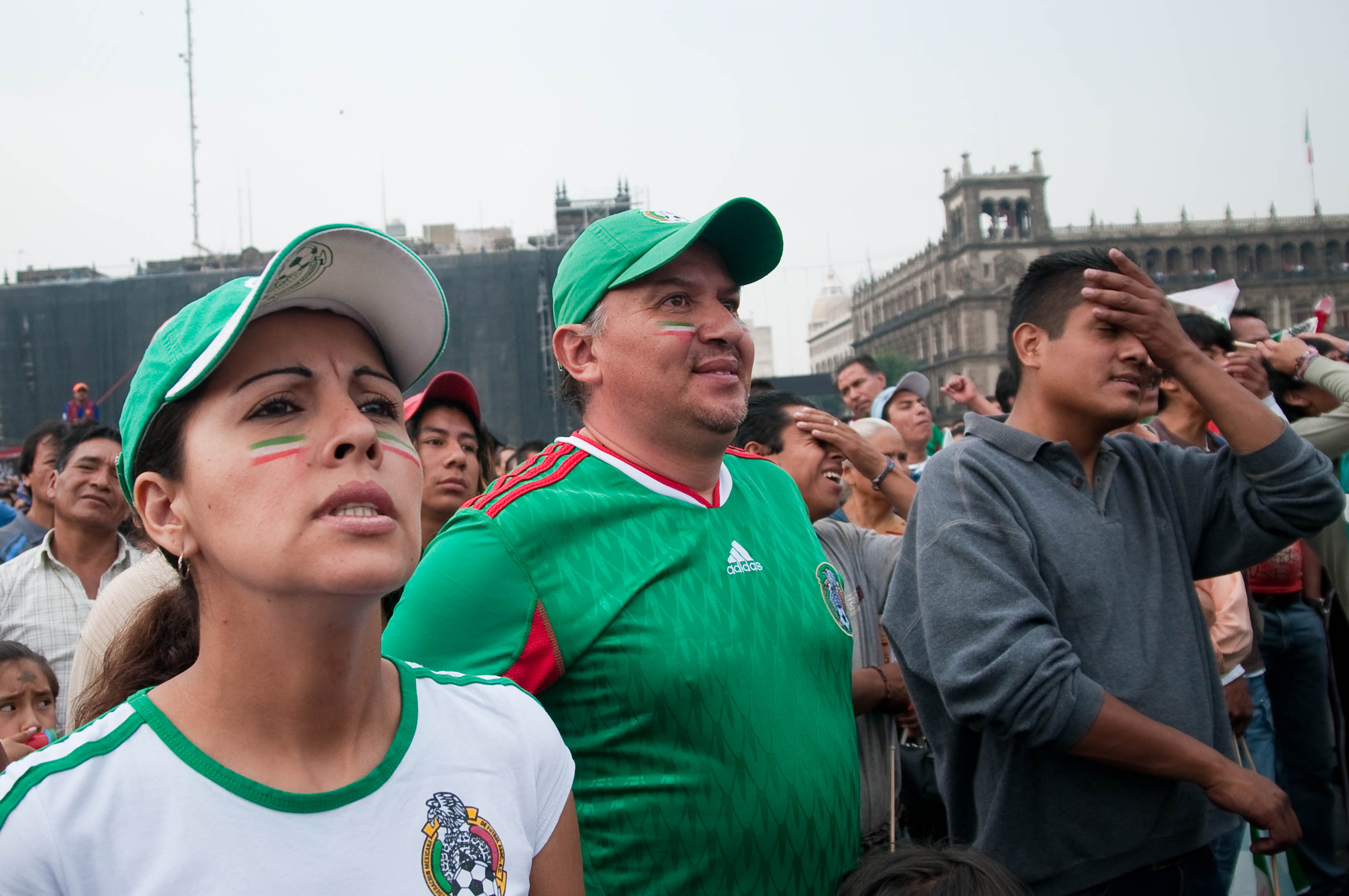 Faces of people at Plaza de la Constitución in Mexico City, after the South Africa's goal in the opening match of the FIFA World Cup 2010.